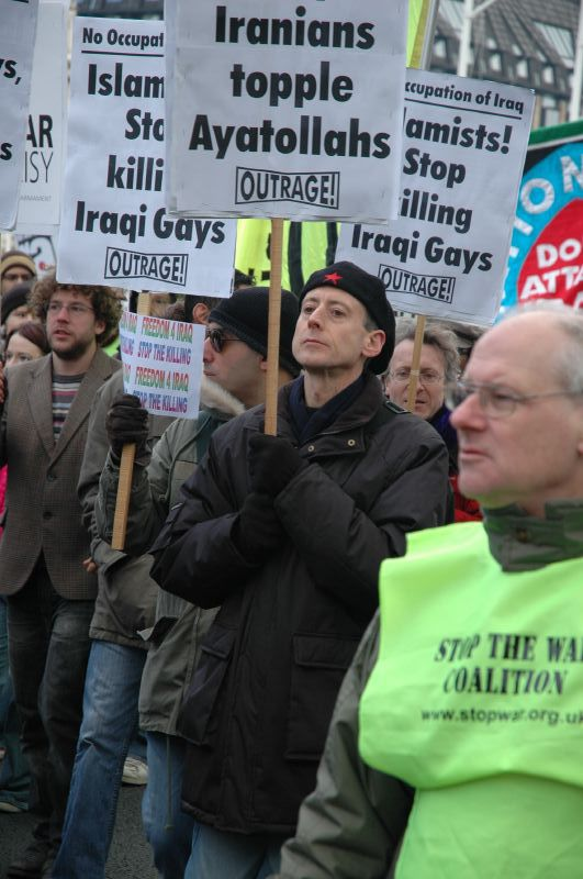 OutRage! group with Peter Tatchell marching against the killing of Iraqi gays.